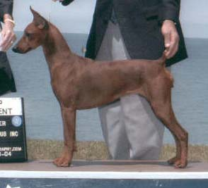 Ch Windamir's Chosen one was awarded Best of Opposite Sex to Best of Breed at the Westminster Kennel Club Dog Show in 2004 - the first year this breed was eligible for competition at this show.